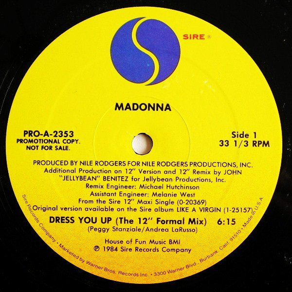 A-side label of U.S. vinyl release of "Dress You Up" by Madonna